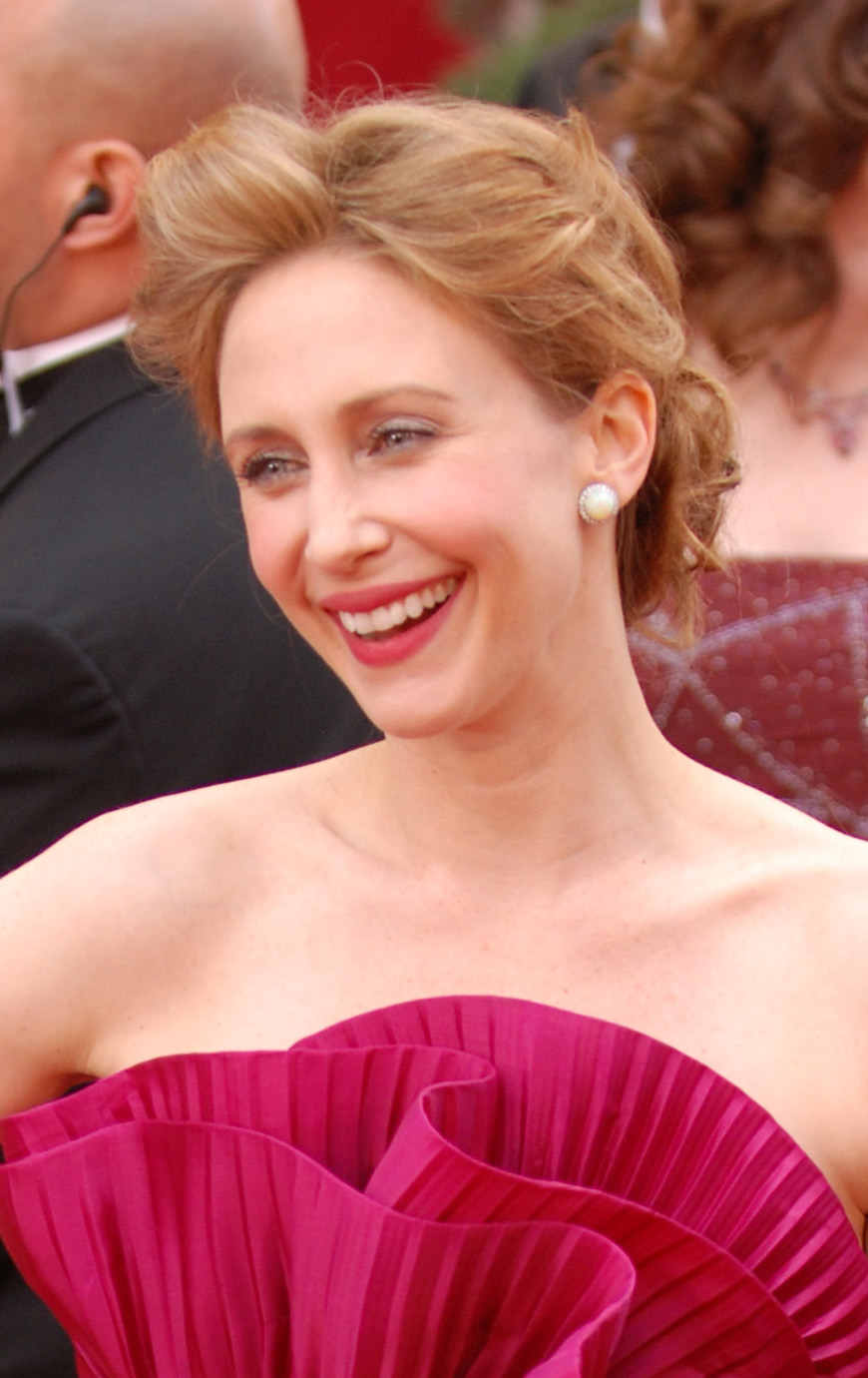 Vera Farmiga is all smiles on the red carpet at the 82nd Academy Awards, March 7, in Hollywood, Calif. She was nominated for supporting actress for "Up in the Air."